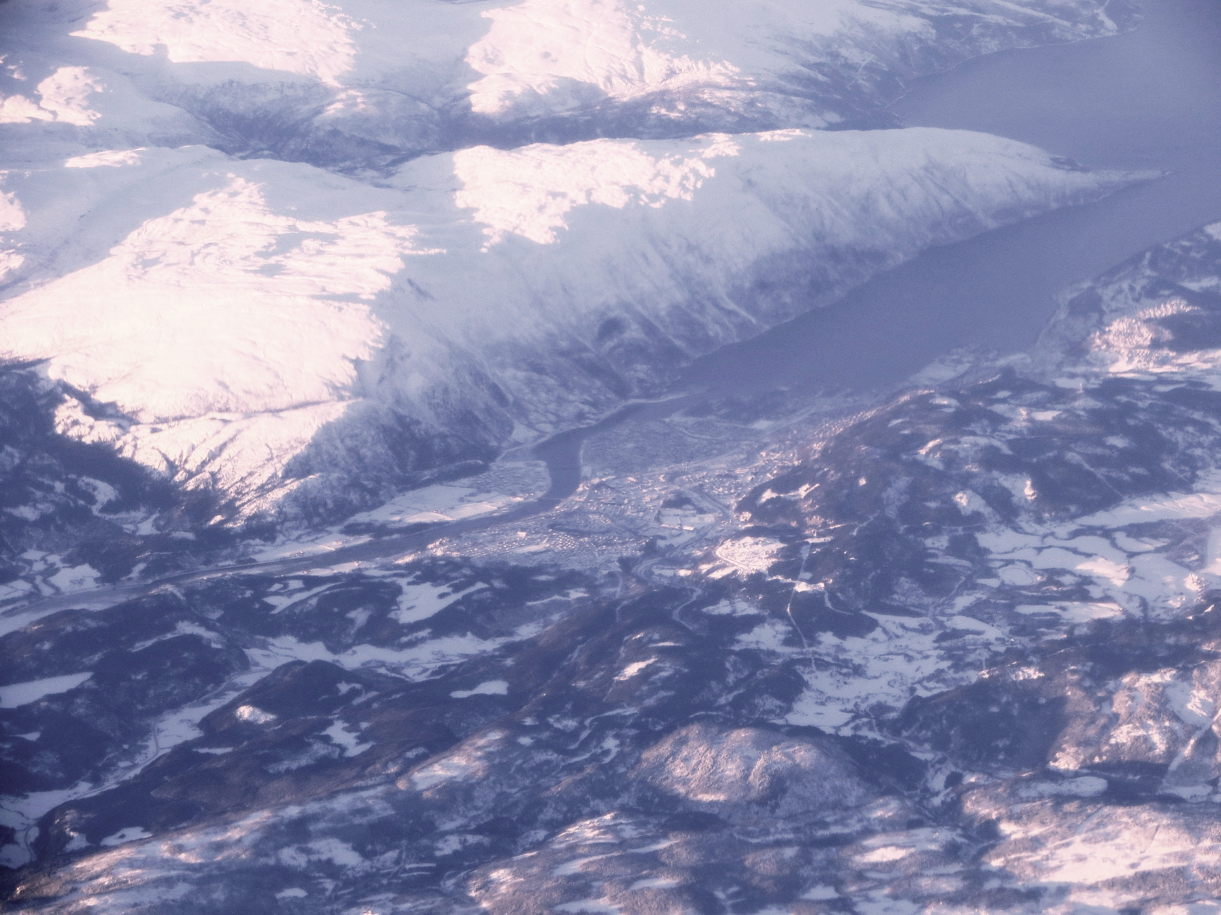 Aerial view from the east towards west, over the municipality of Vefsn, in southern Nordland county - mid Norway